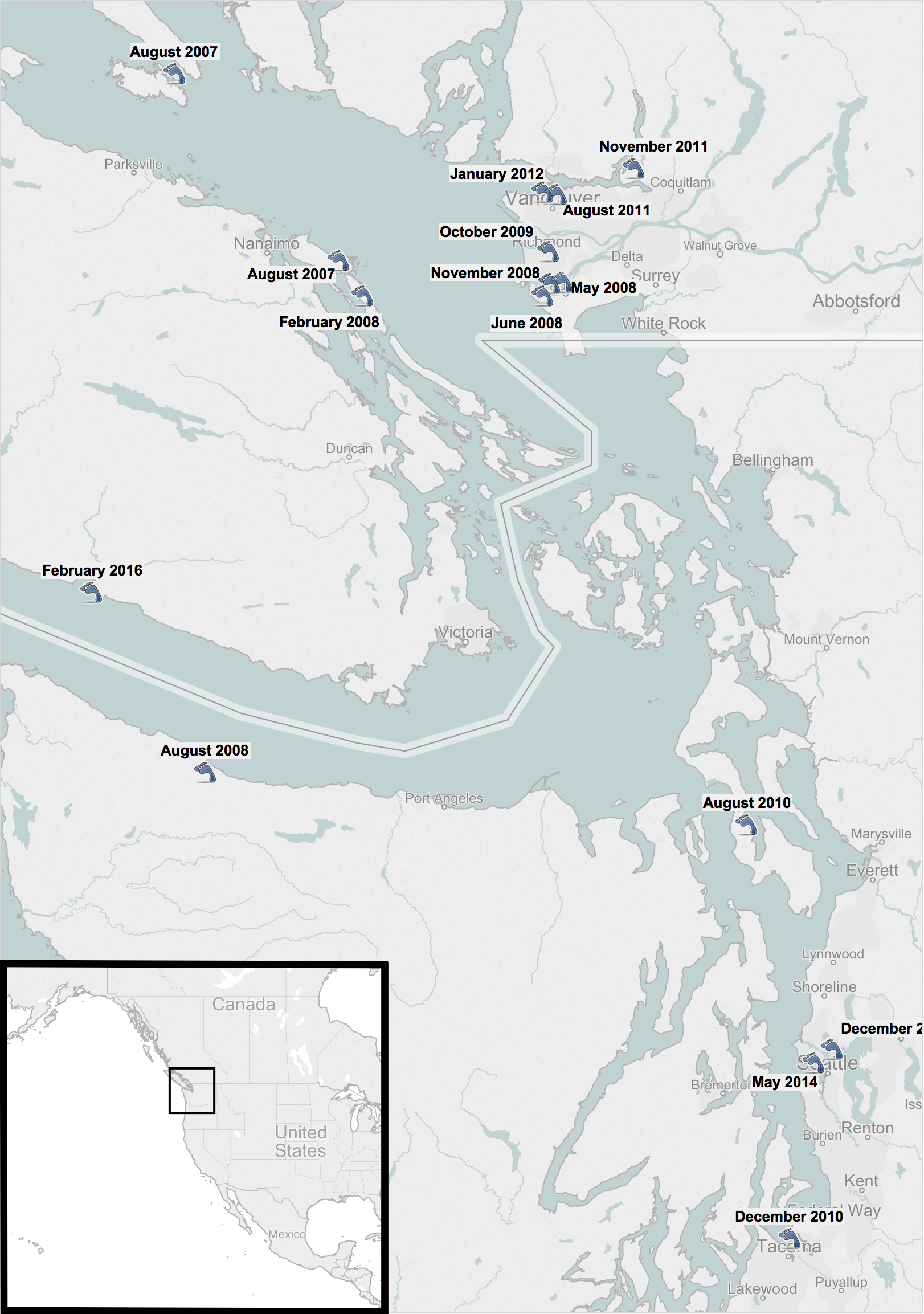 Map of Salish Sea human foot discoveries through February 2016. Created with Tableau. Underlying map data from Tableau via OpenStreetMap using Open Data Commons Open Database License (ODbL). See About Tableau Maps.